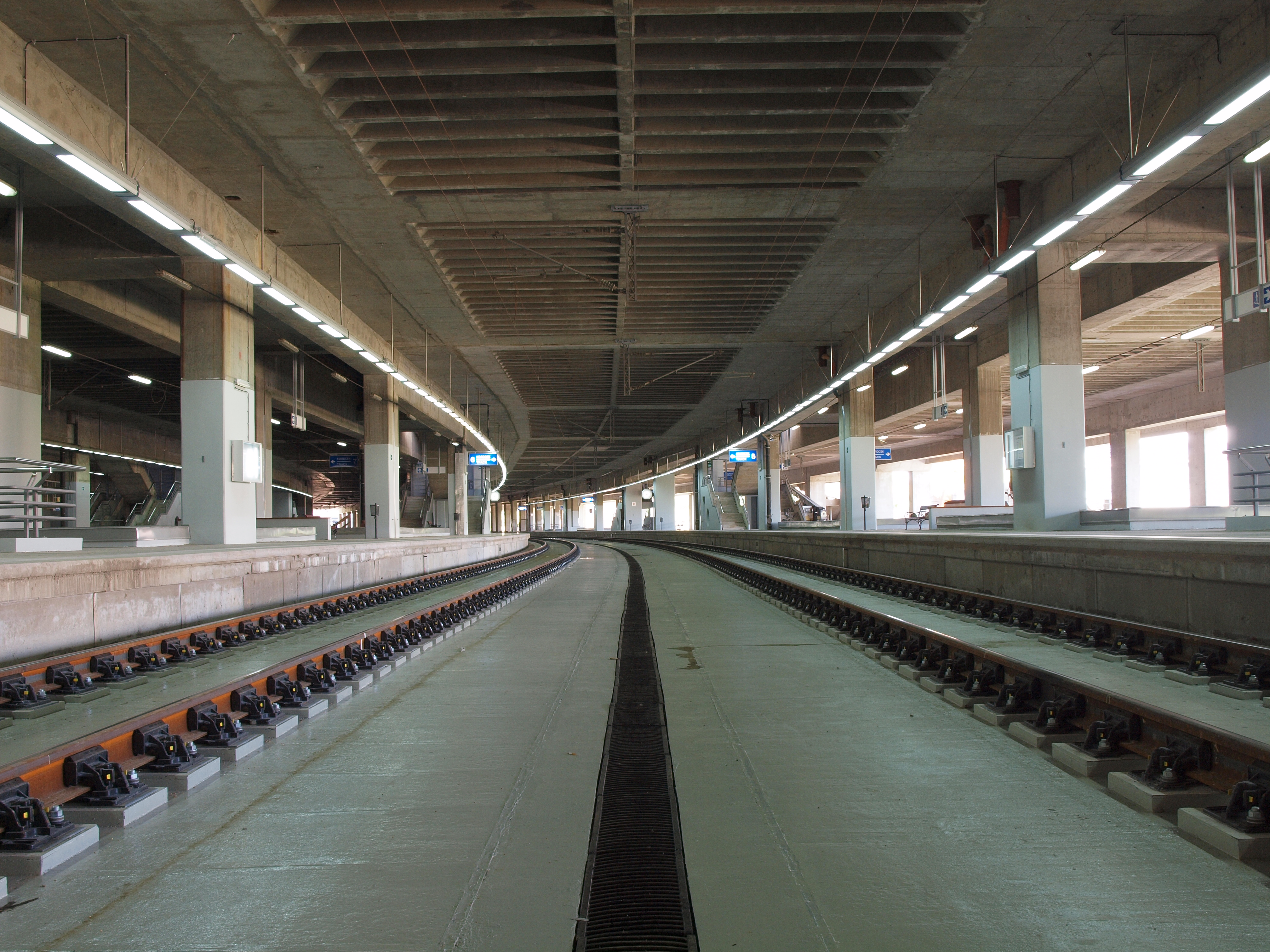 Prokop new lines